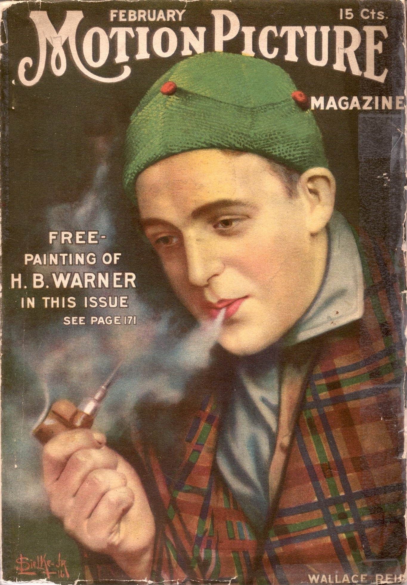 Wallace Reid by Leo Sielke, Jr.